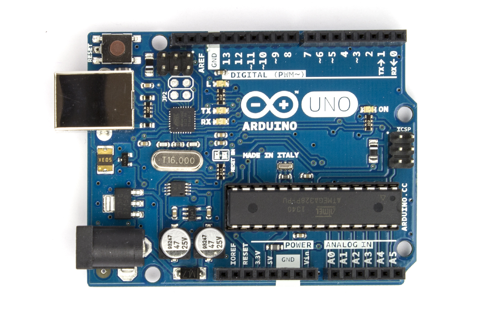 Arduino Uno Rev 3.